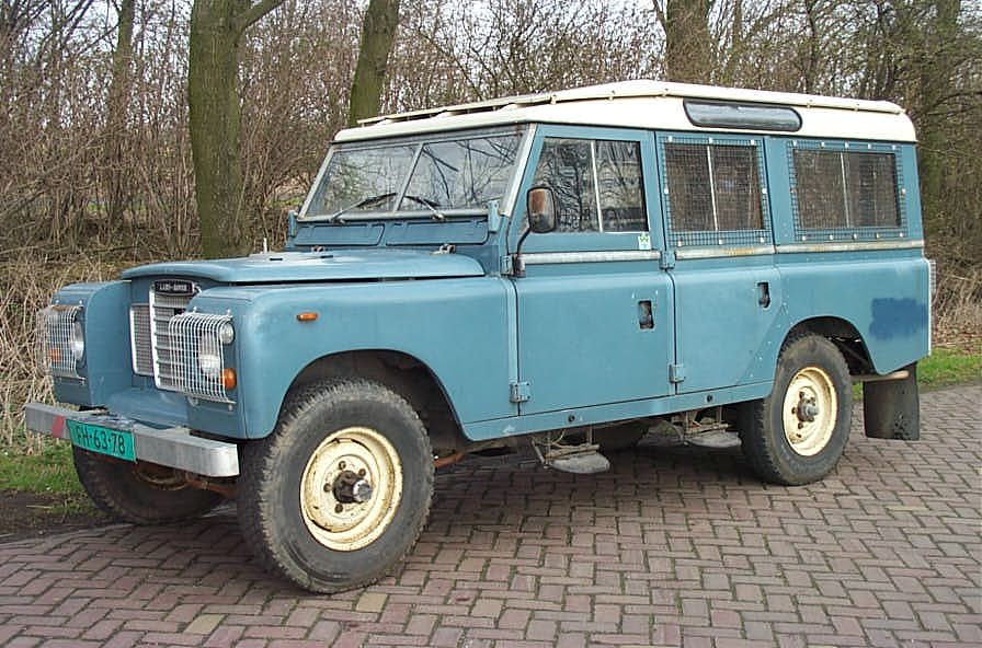 Land Rover 109 lwb 1980